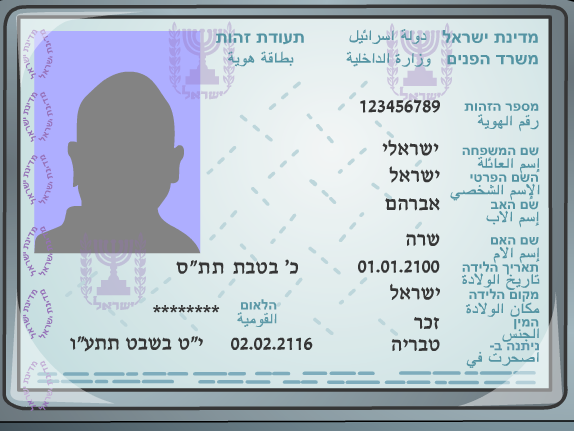 An example of Teudat-Zehut